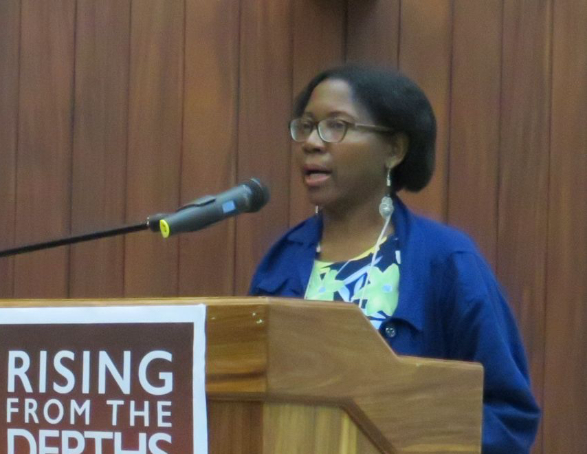 Solange Macao speaking at a meeting of the Rising from the Depths network in Maputo, 2018